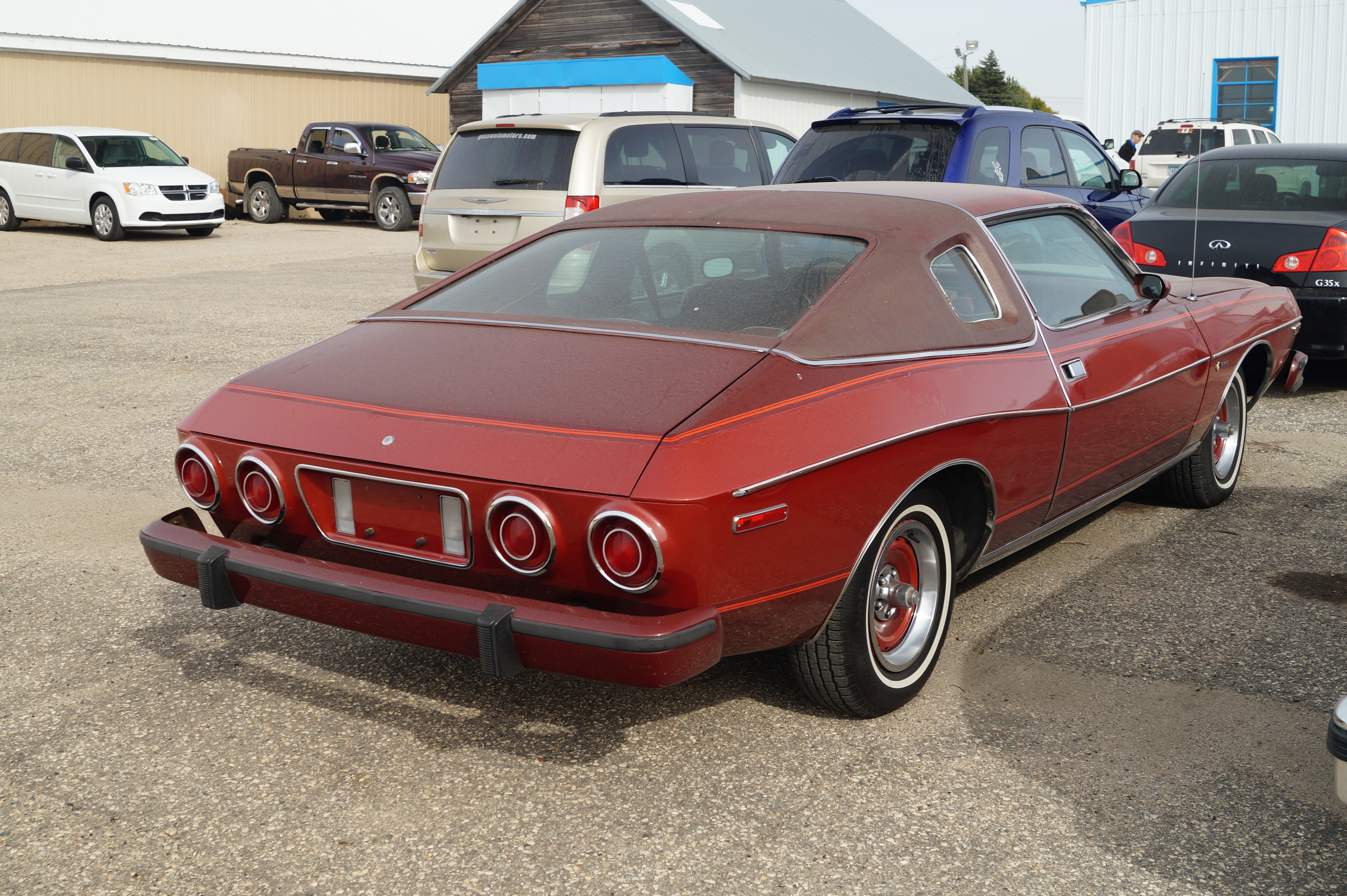 Click here for more car pictures at my Flickr site. Stock#U12334 Pkg.BARCELONA COUPEColorRED Mileage76,864Int--- EngV8 360 CU INTrans.AUTOMATIC